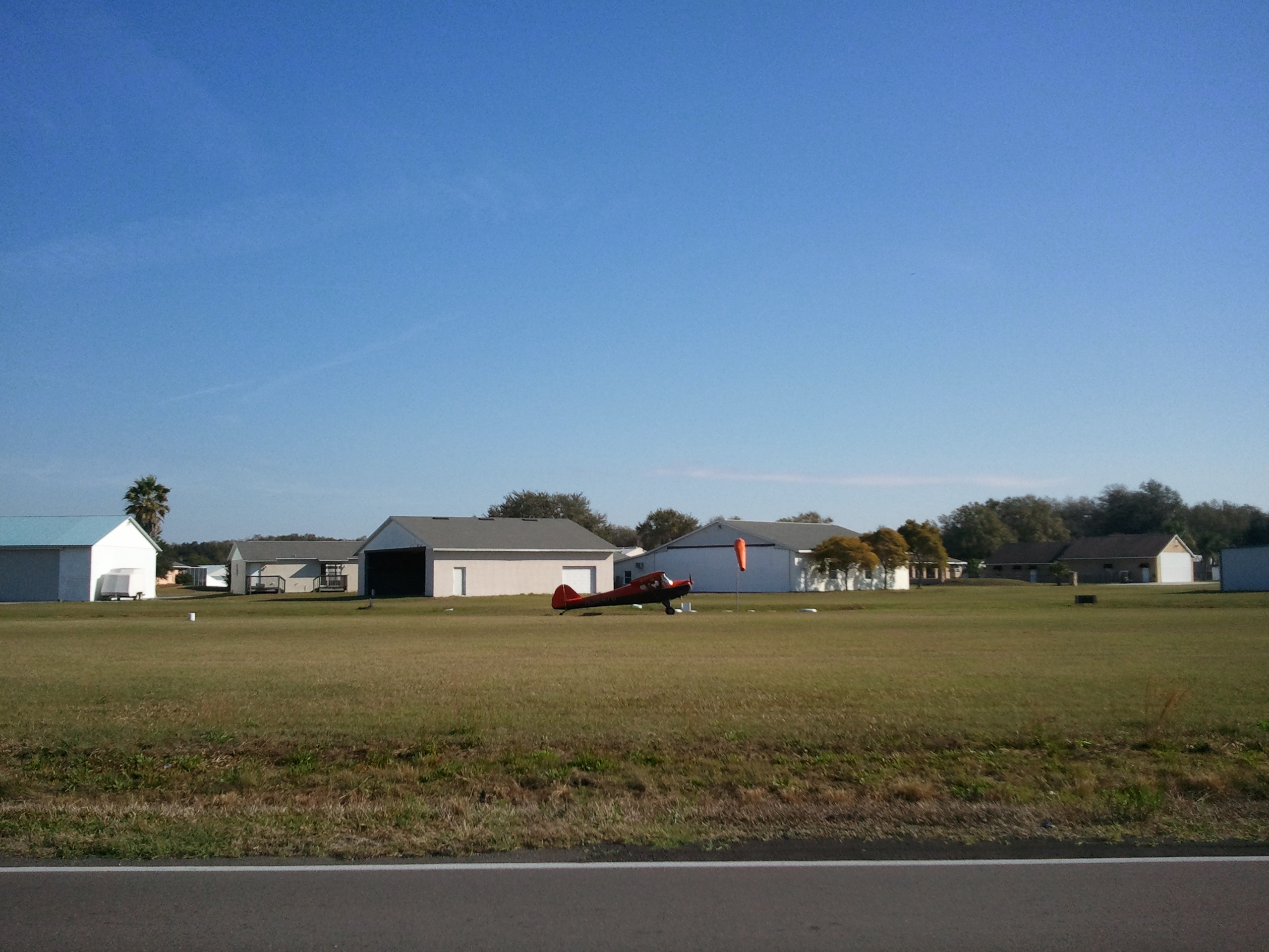 South Lakeland Airport, Mulberry Flordia. FAA: X49.